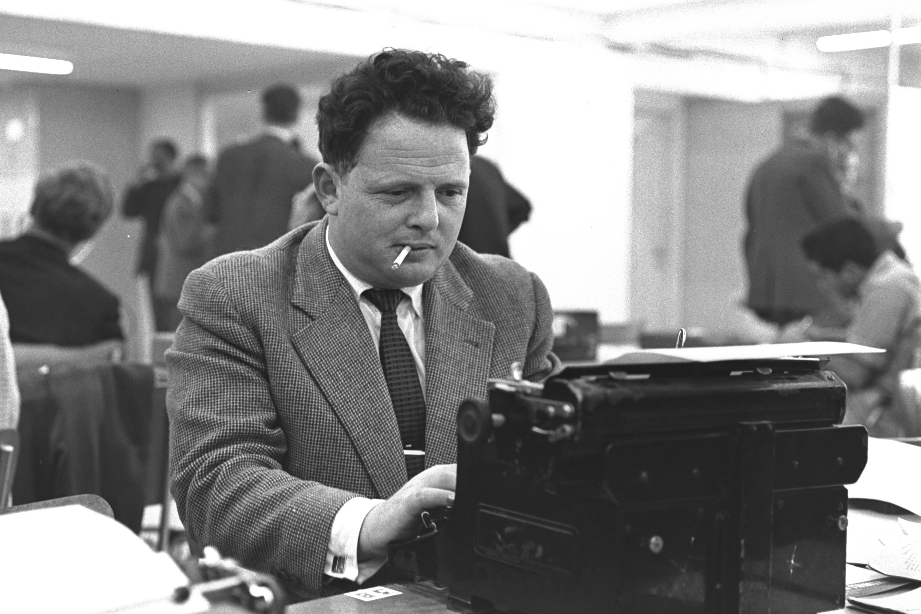 Israel journalist Tommy Lapid reporting from Adolf Eichman's trial, Jerusalem 1961